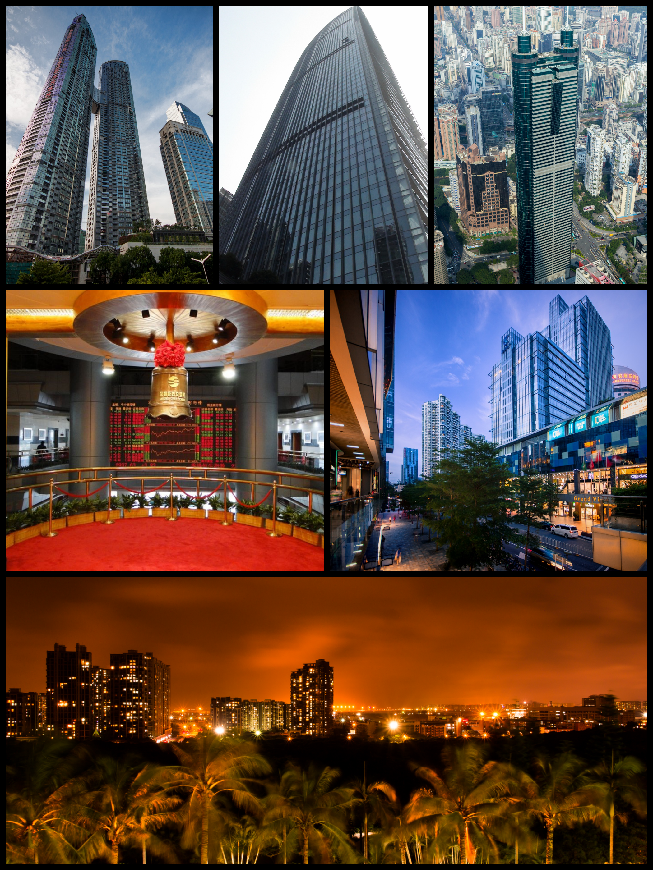 Clockwise from top: East Pacific Center, KK100, Shun Hing Square, Coastal City, Shenzhen Bay at night, and Shenzhen Stock Exchange in Shenzhen, Guangdong Province, China